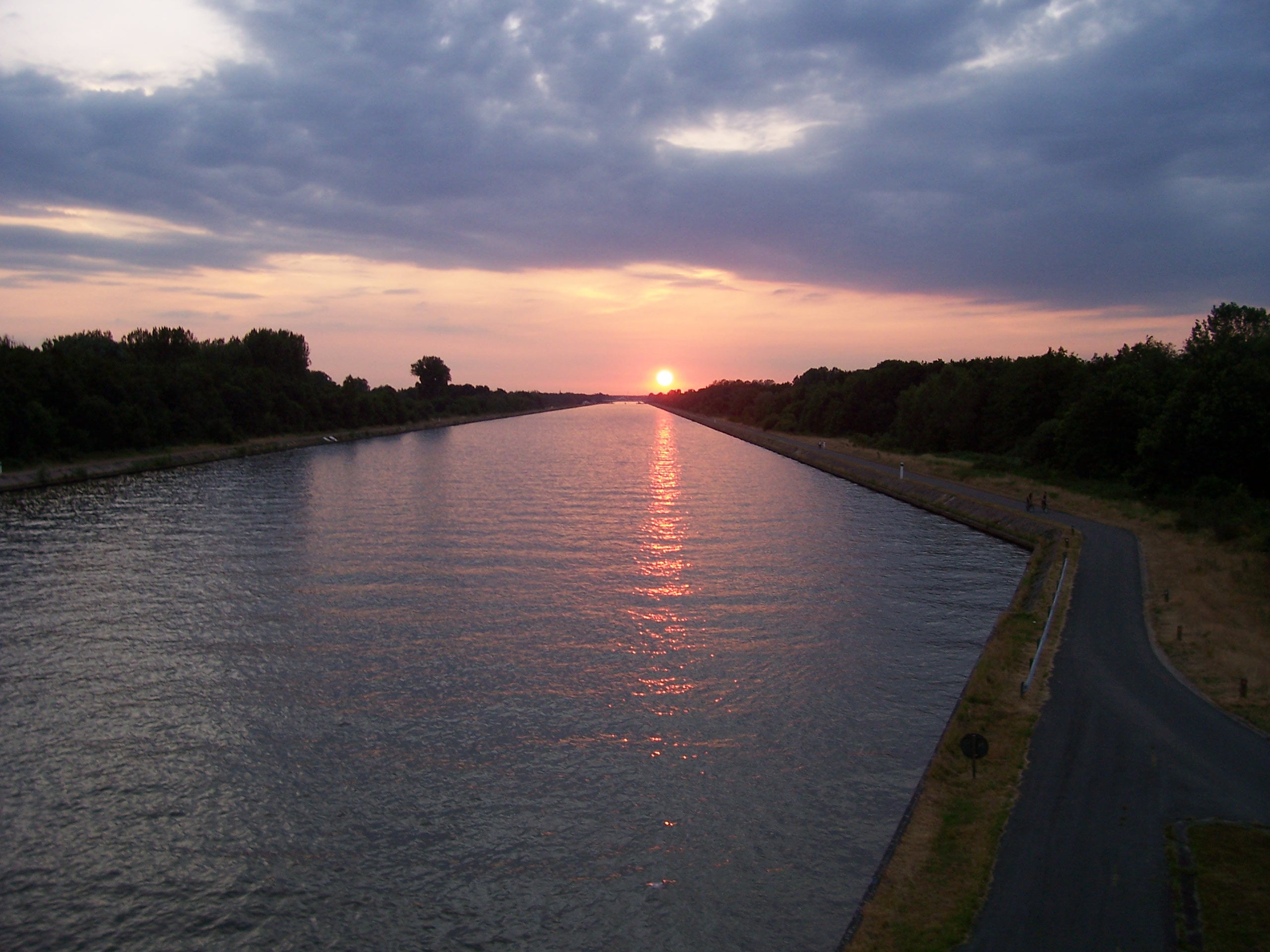 the Albert Canal in Belgium, picture taken from the Kuringen-bridge in Hasselt. (Photographer: Sven Vaes, picture taken anno july 2006)